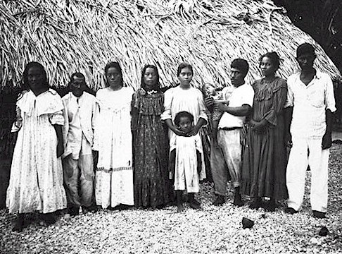 Marshallese people in 1915